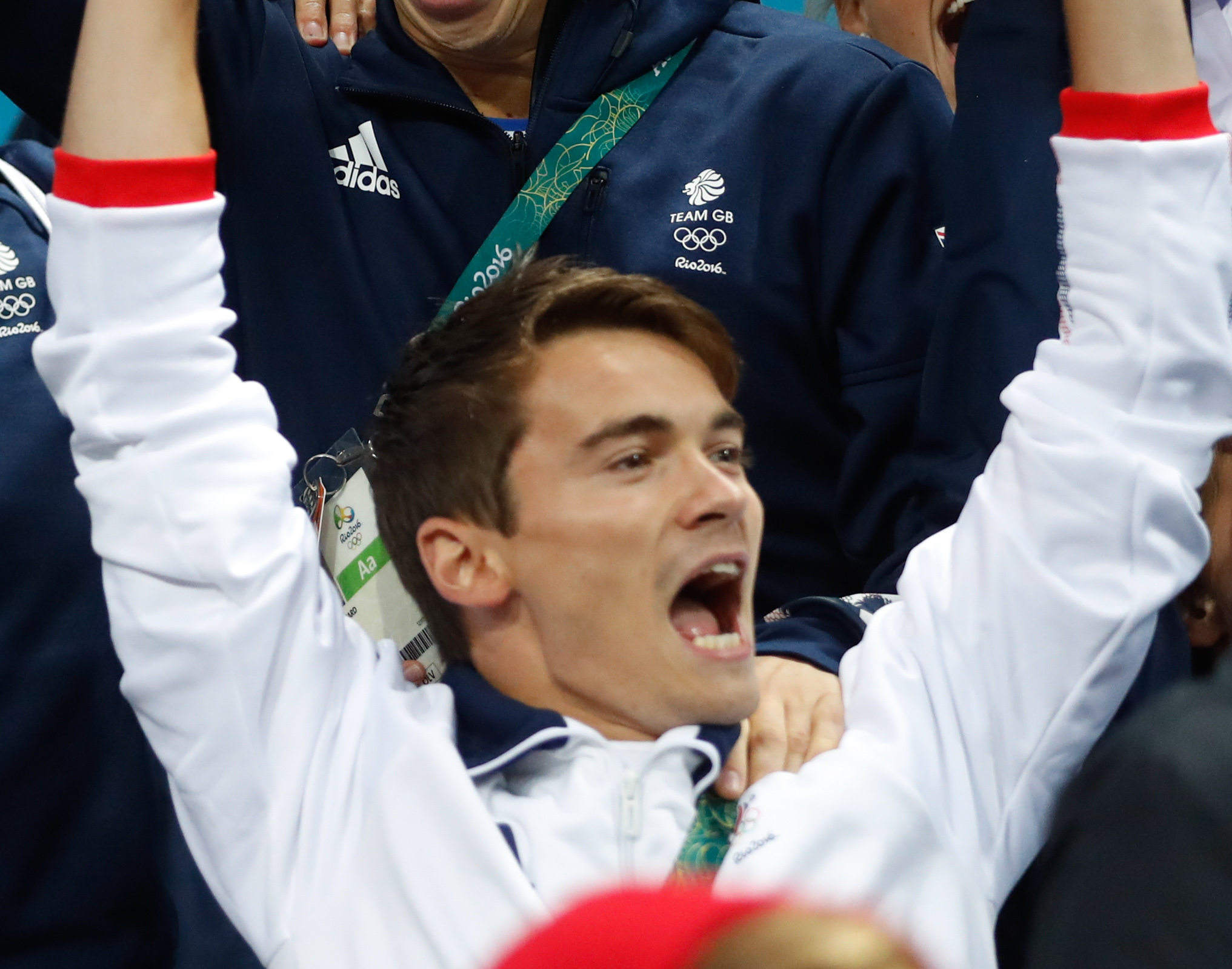 British diver Daniel Goodfellow celebrates upon learning that teammates Jack Laugher and Chris Mears have just won the gold medal in synchronised springboard diving, at the 2016 Summer Olympics, in Rio de Janeiro.